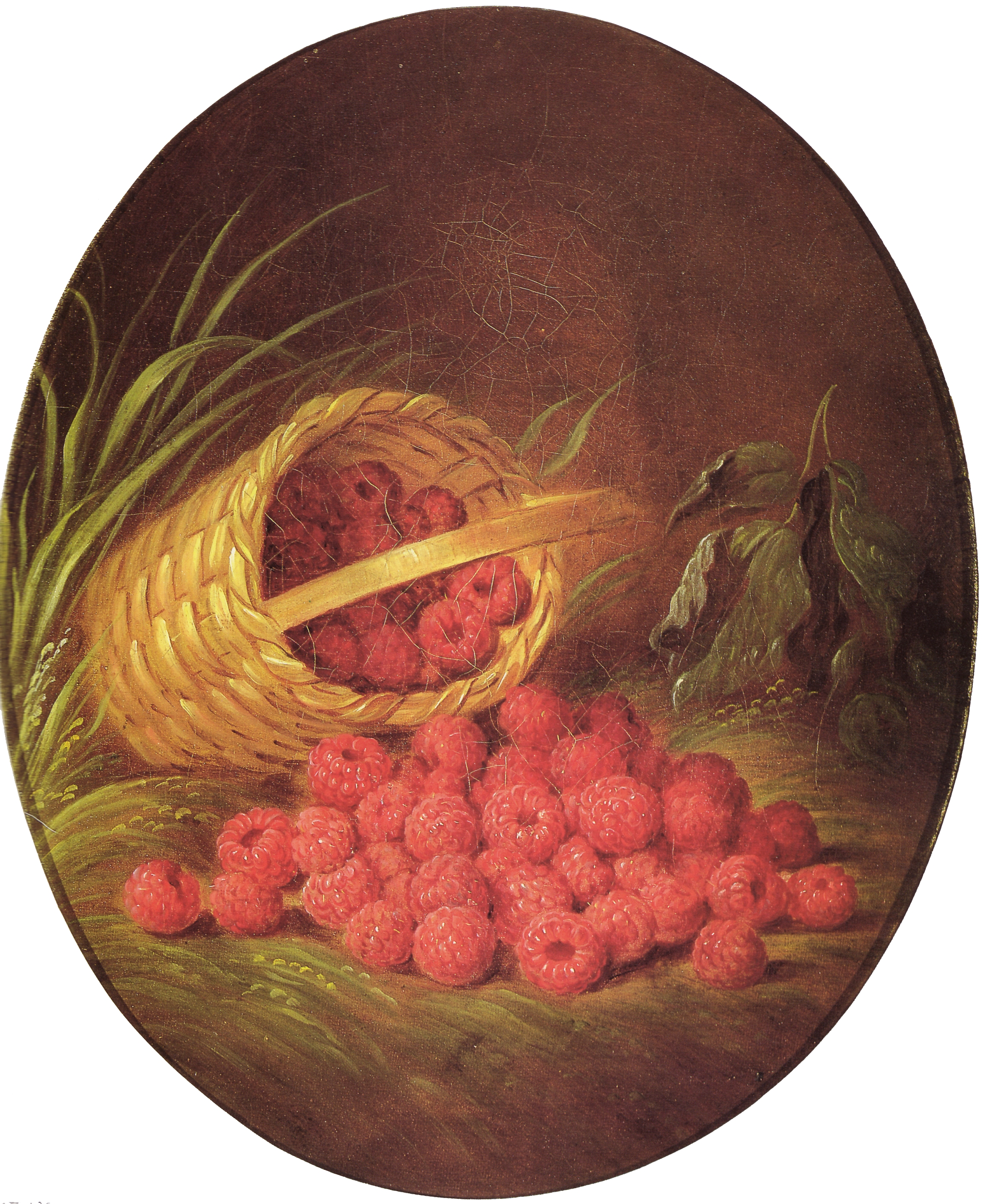 Painting Basket of Berries by Sarah Miriam Peale